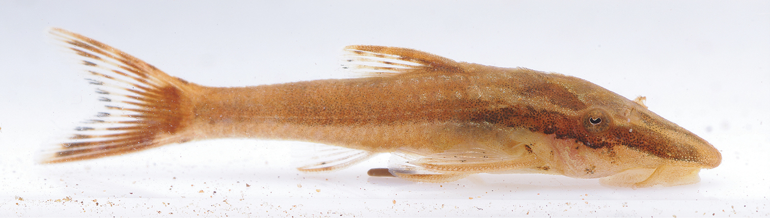 Hisonotus acuen, LBP 16284, live specimen, from affluent of rio Toguro, Querência, Mato Grosso State, Brazil. Photo: M. Taylor.